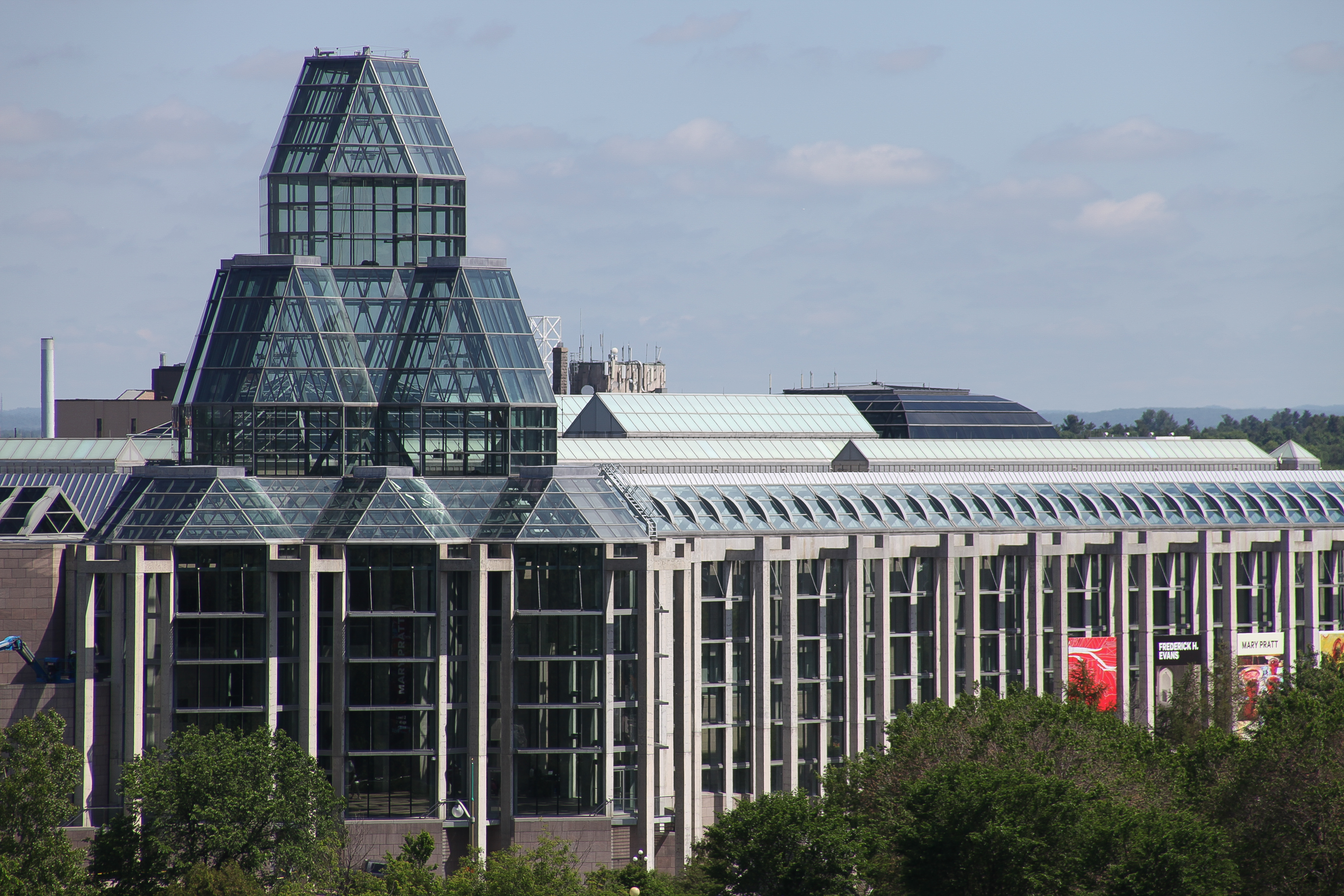 The National Gallery of Canada, designed by Moshe Safdie